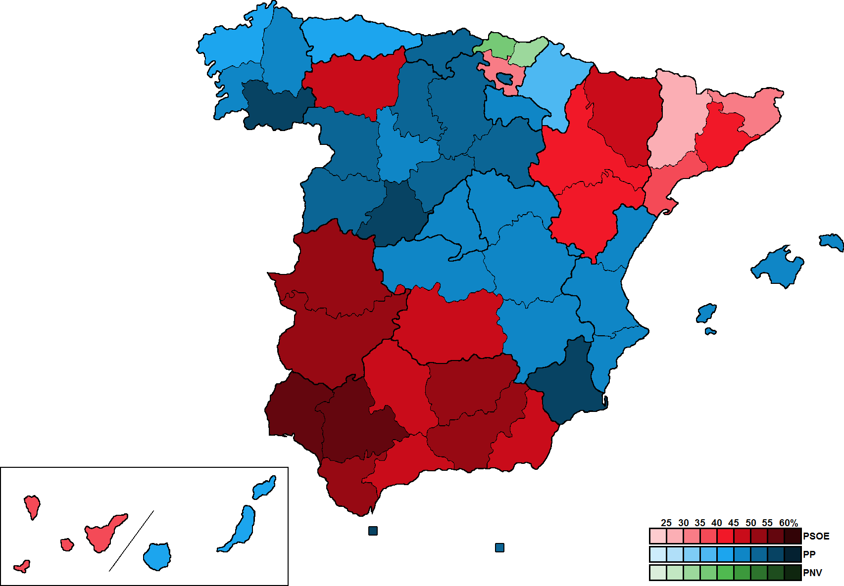 Provincial results for the 2004 Spanish general election.